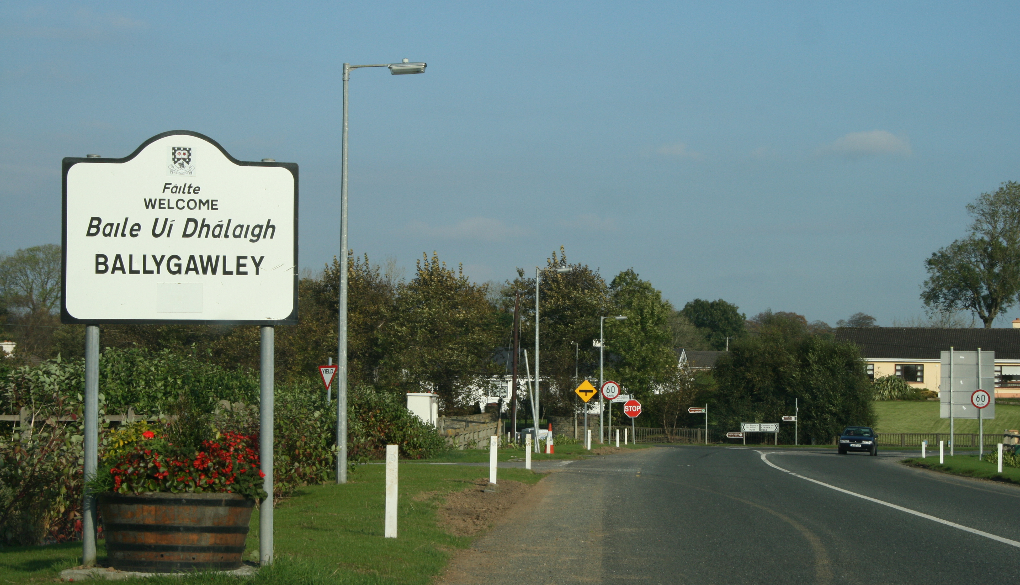 Ballygawley, County Sligo, near to Ballygawley, Doonally and Castletown, Sligo, Ireland. The R290 approaches the R284.